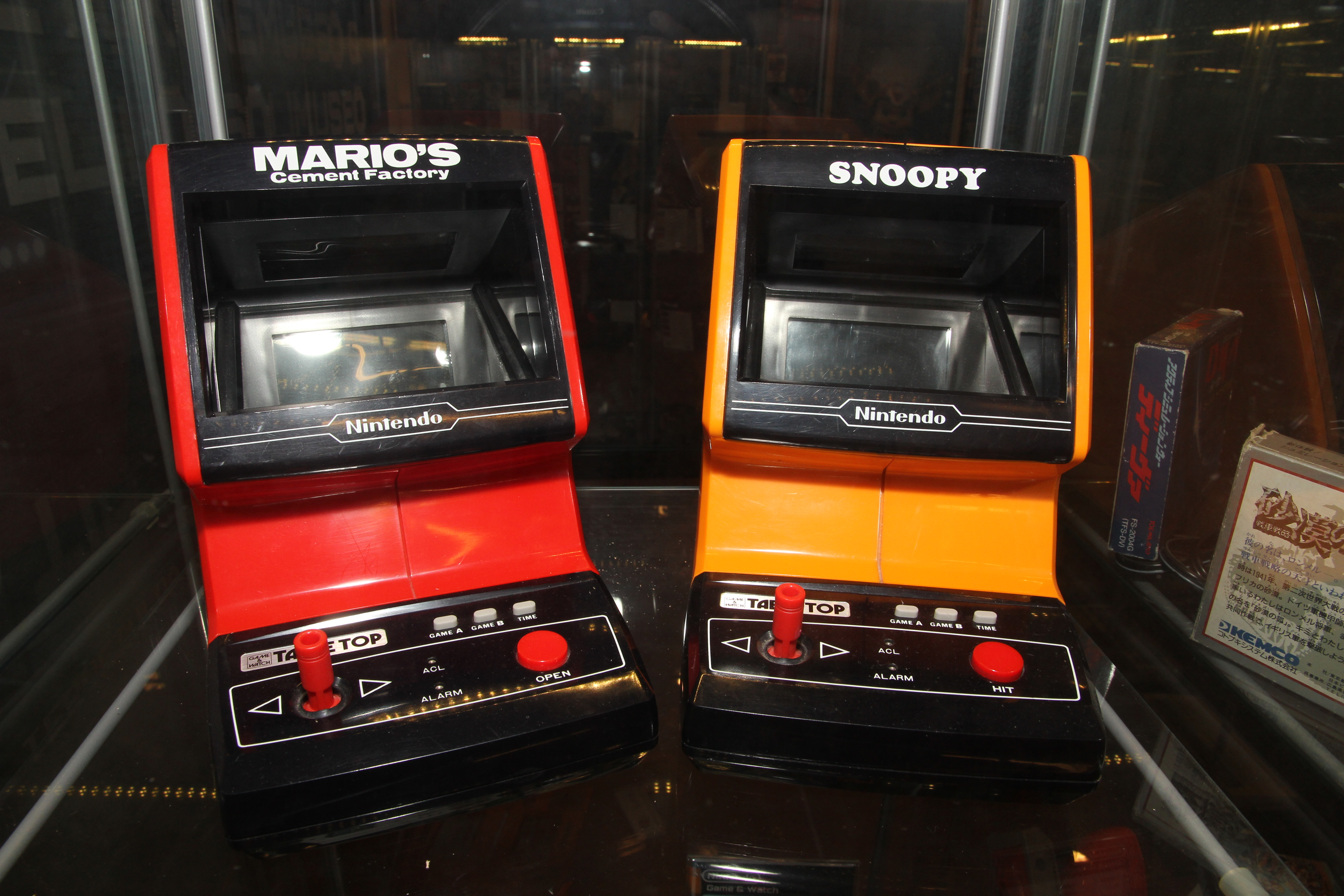 Nintendo Game & Watch tabletop games Mario's cement factory and Snoopy in Helsinki Computer and game console museum.